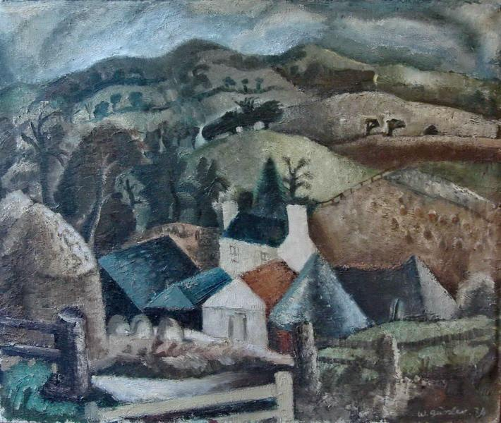 Farm Scene in Wamphray, Dumfries and Galloway, Scotland, by William Geissler Oil 76cm x 62.8 cm